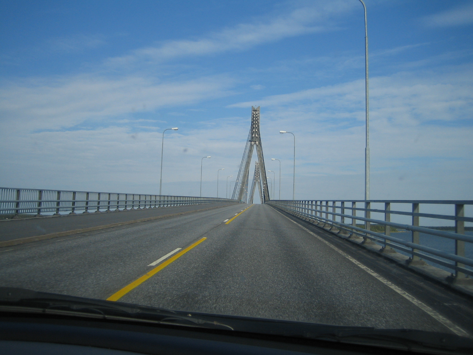 Replot Bridge in Korsholm, Finland. The picture has been taken from car.